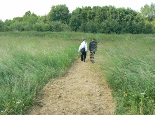 Ribble Link Hay Meadow public access